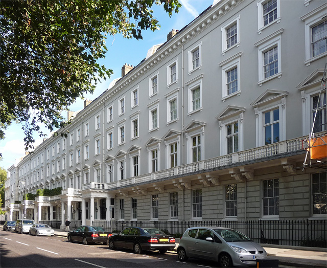 29-37 Chesham Place